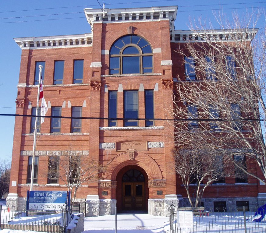 Taken by SimonP in January 2005